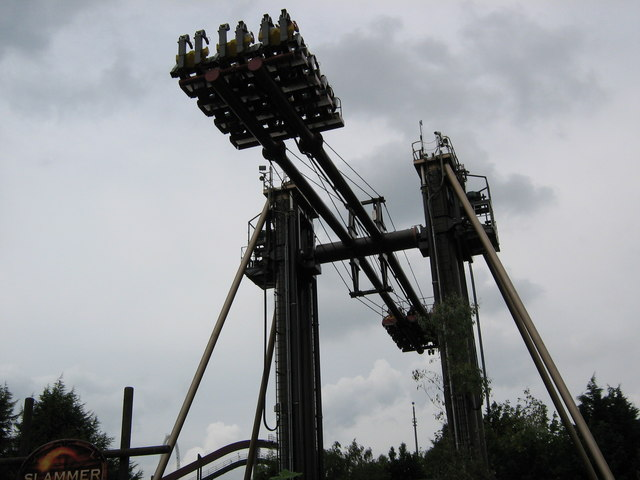 Slammer at Thorpe Park Looking a little like a giant flyswatter, this ride rotates around a central pivot both clockwise and anti-clockwise, one after the other.